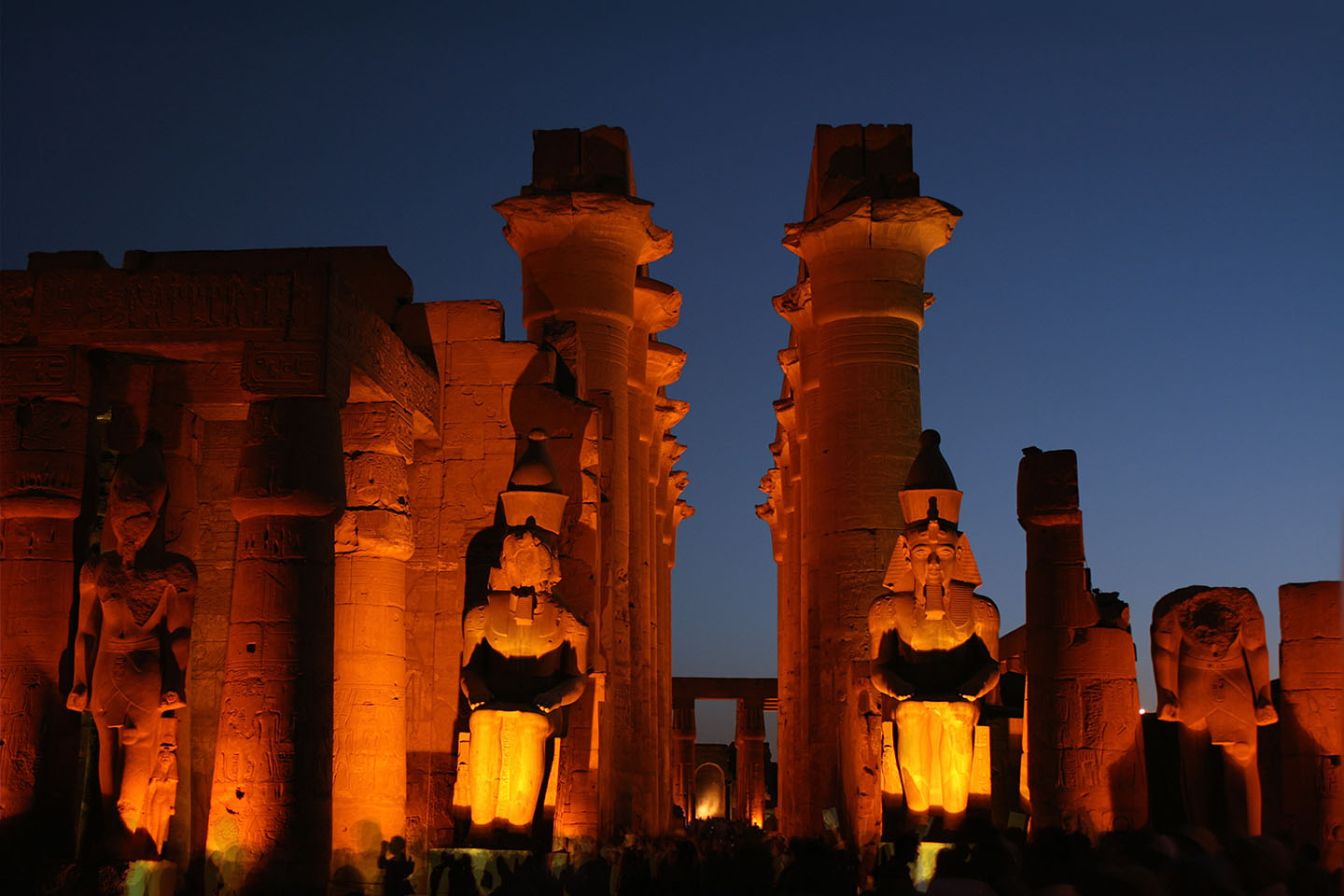 Luxor Temple (Egypt) by night, showing central corridor and four colossi.